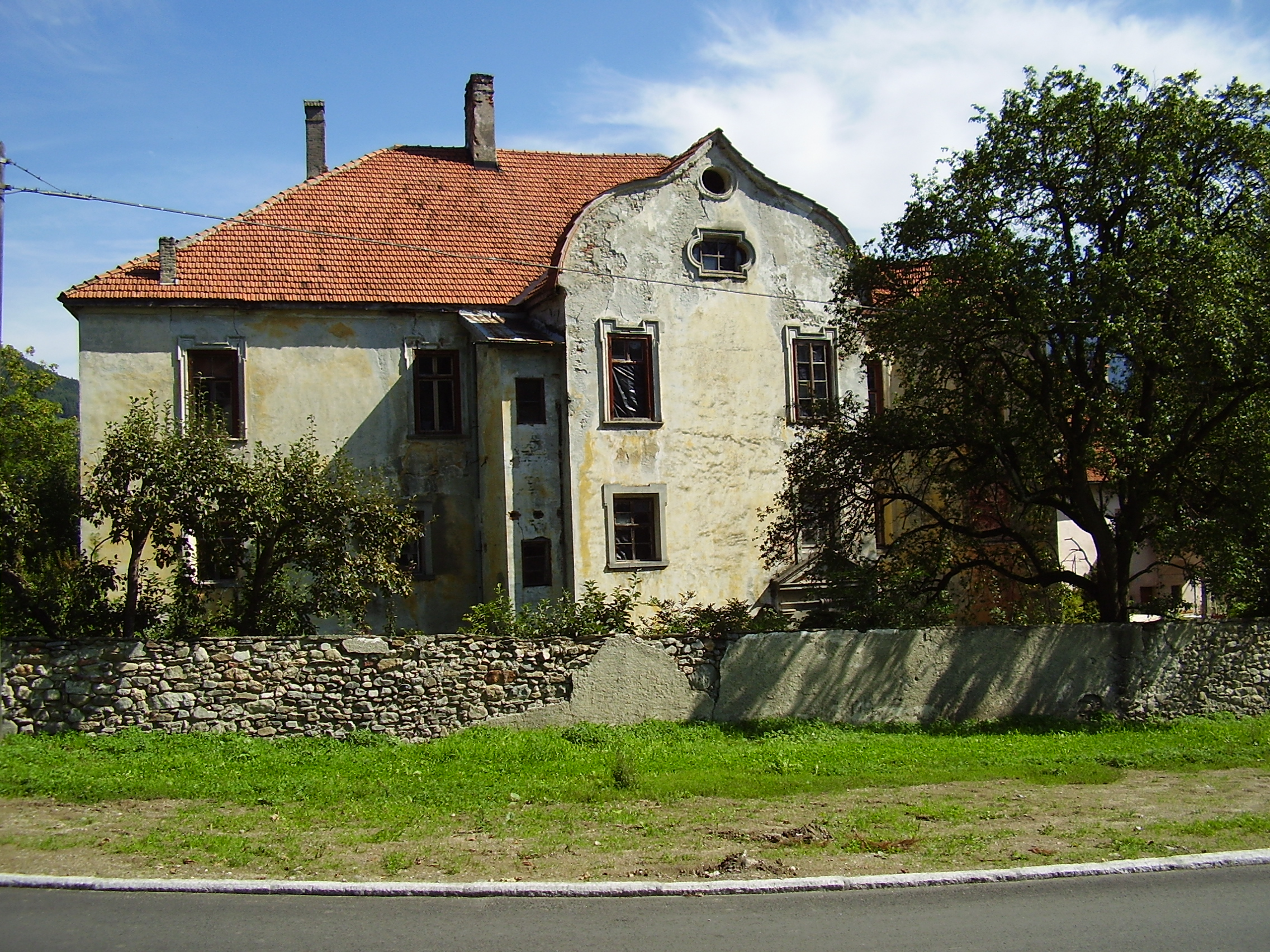 The "Ansitz Gissbach" in St. Georgen (Bruneck, South Tyrol, Italy)